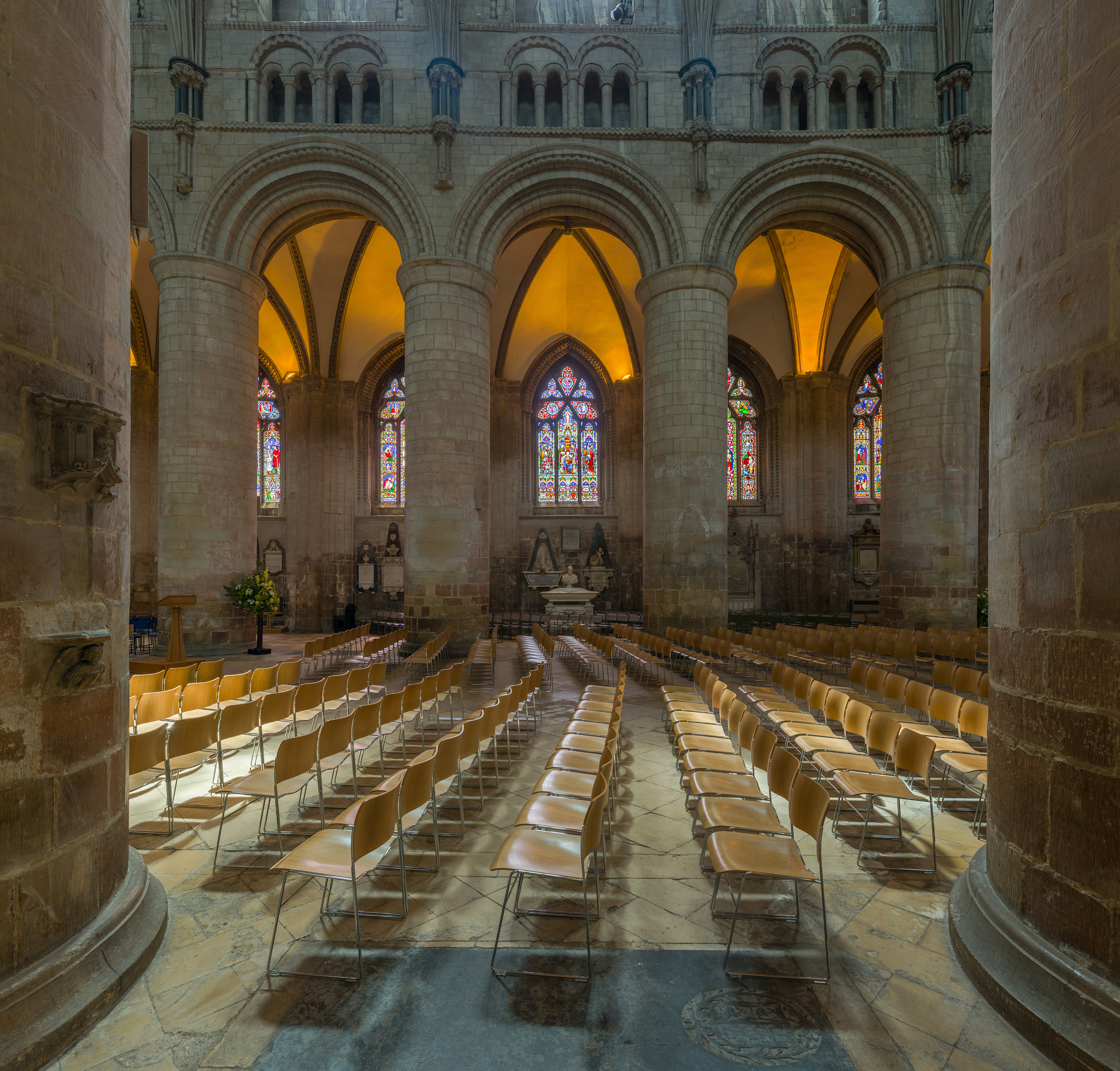 Looking across the nave of Gloucester Cathedral between the pillars.